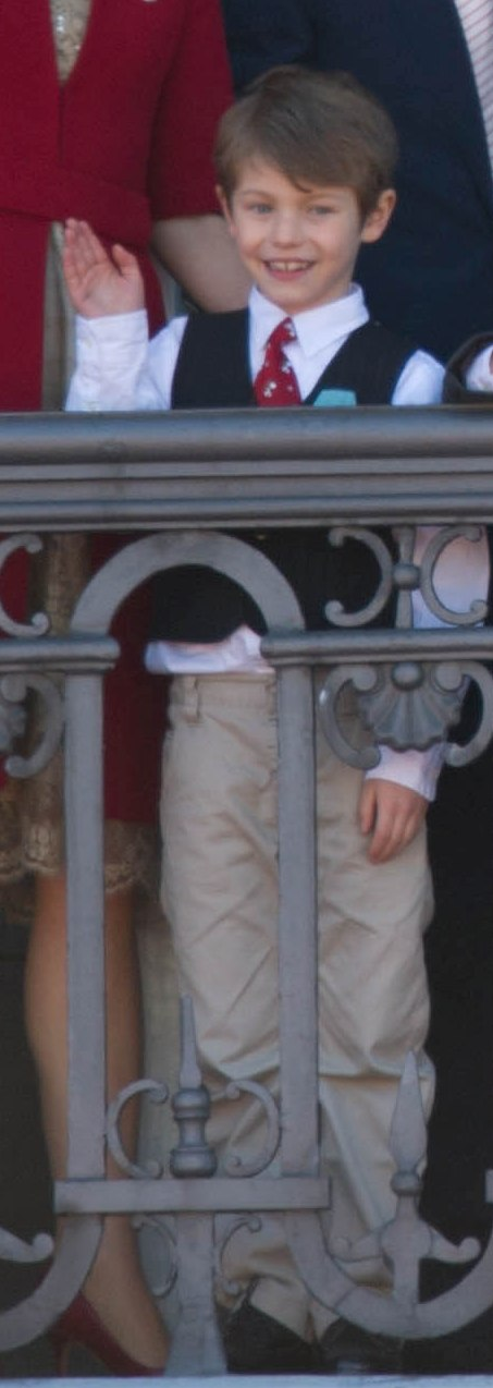 Picture showing the Royal Family of Denmark during Queen Margrethe II 70th birthday, 16 April 2010